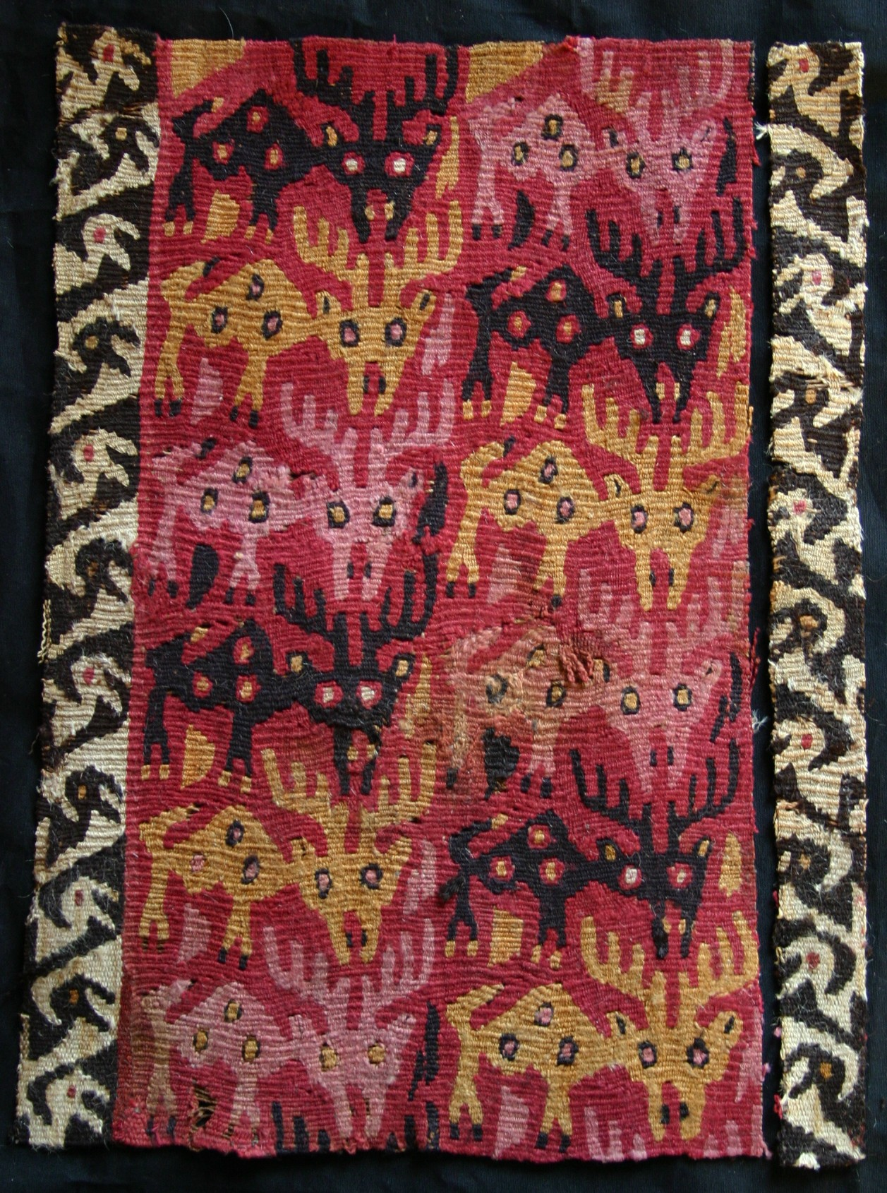 tapestry with deers, Chancay 1000-1450 A.D.